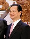 Cropped image of Prime Minister Nguyen Tan Dung, at the Office of the Government Cabinet Room Friday, Nov. 17, 2006, in Hanoi, Vietnam. White House photo by Eric Draper